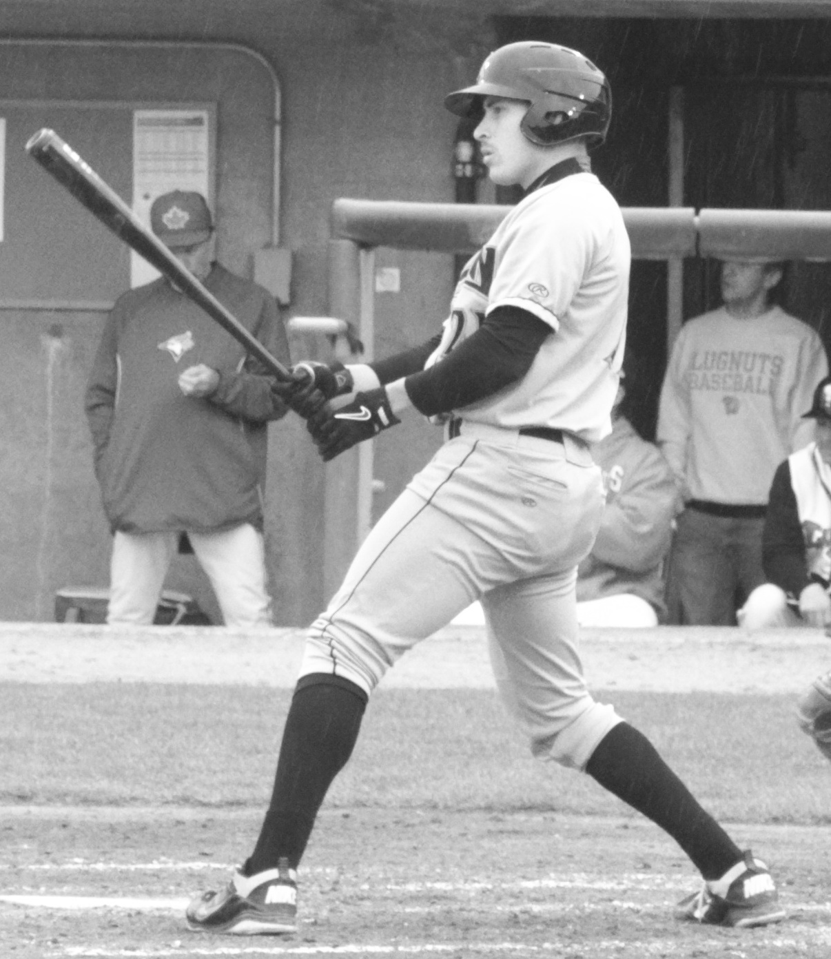 Seth Mejias-Brean bats for the Dayton Dragons during a 2013 game against the Lansing Lugnuts at Cooley Law School Stadium in Lansing, Michigan.